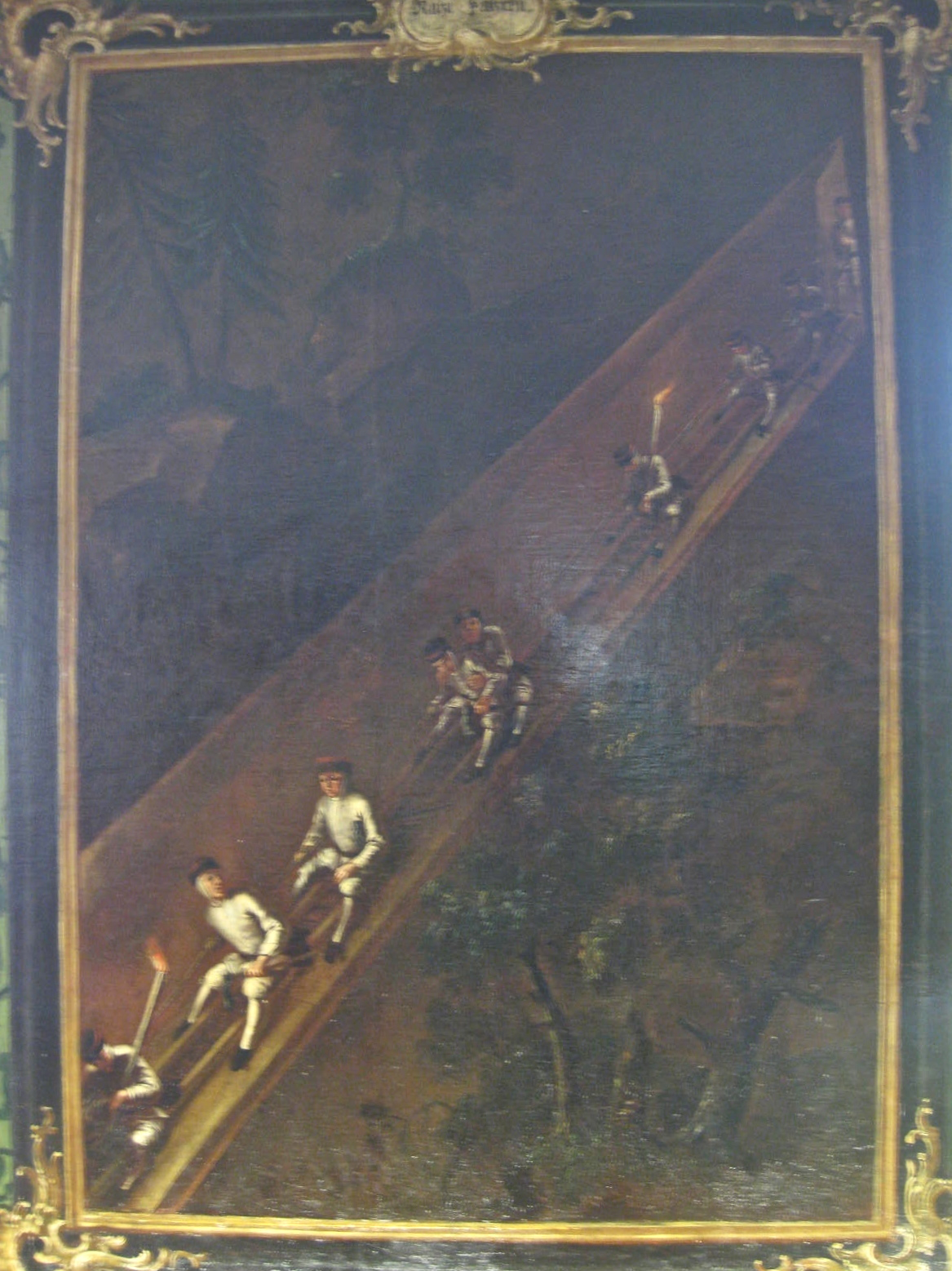 Salt miners sliding down a wooden shute into the Hallein saltmine. By Benedict Werkstötter